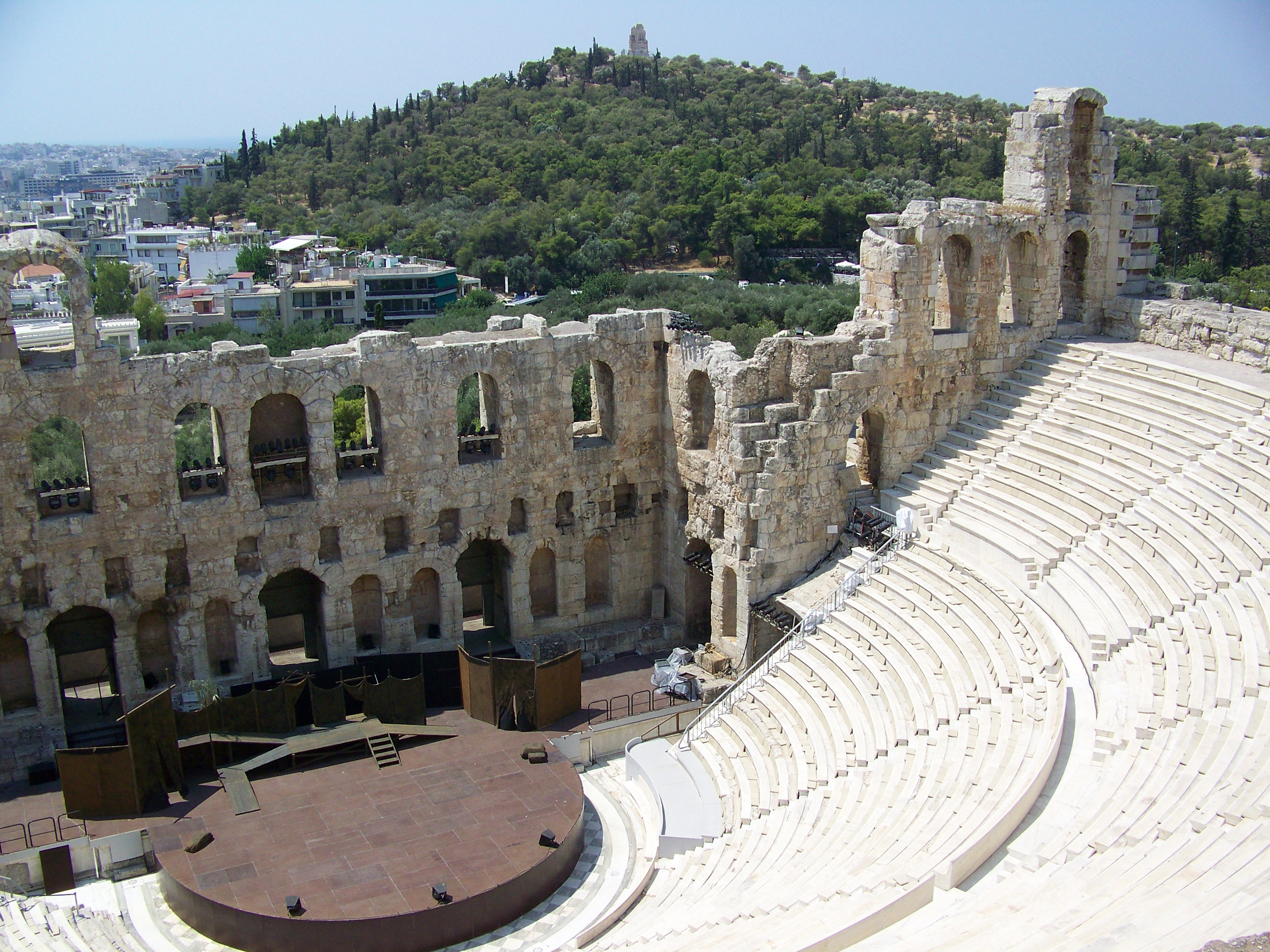 Theatre of Herodes Atticus (with the Philopappos monument in the background), on the south slope of the Acropolis of Athens, Greece.